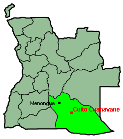 Menongue and Cuito Cuanavale in Angola